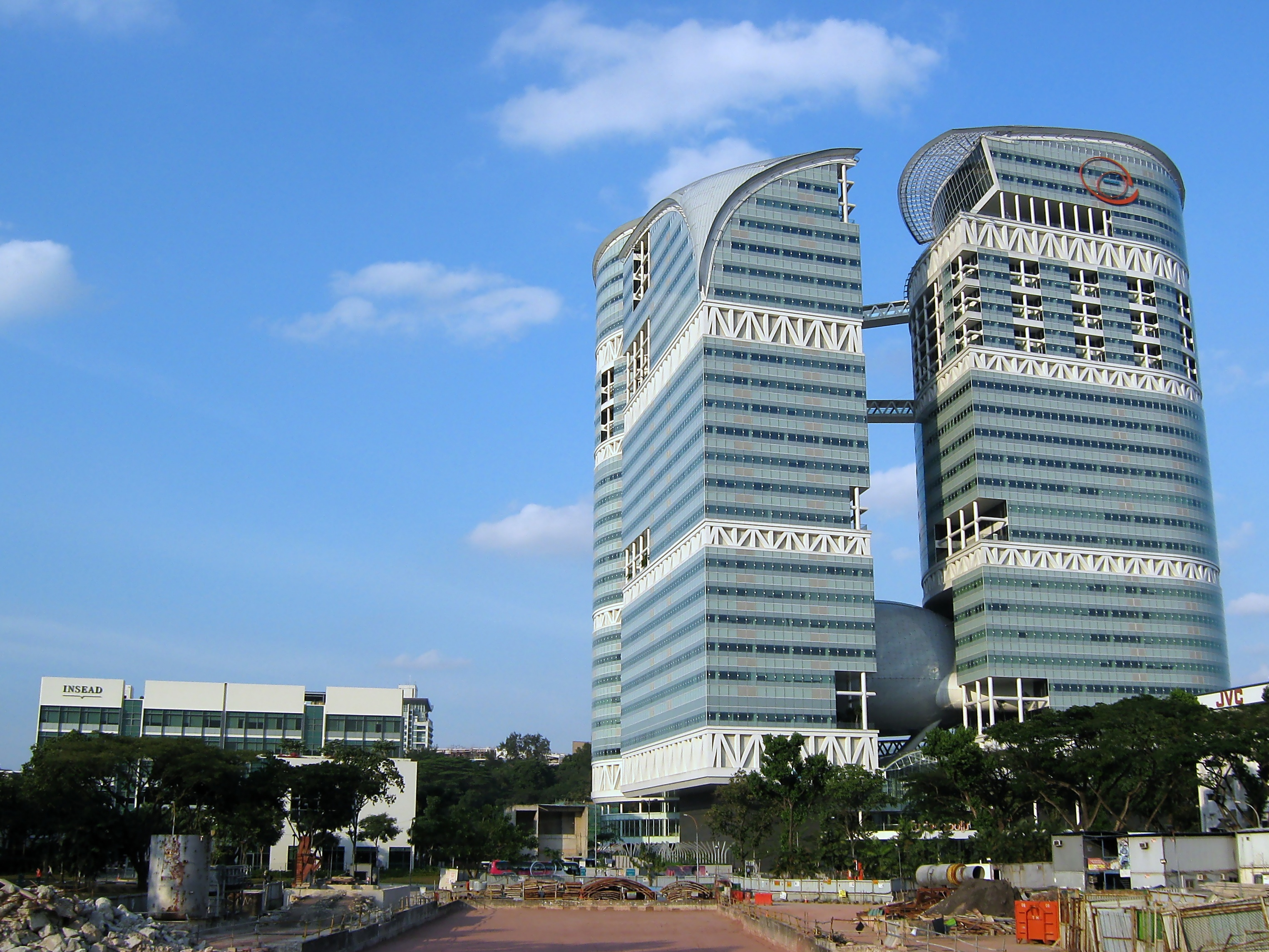 Phase I of Fusionopolis at one-north in Buona Vista, Singapore.